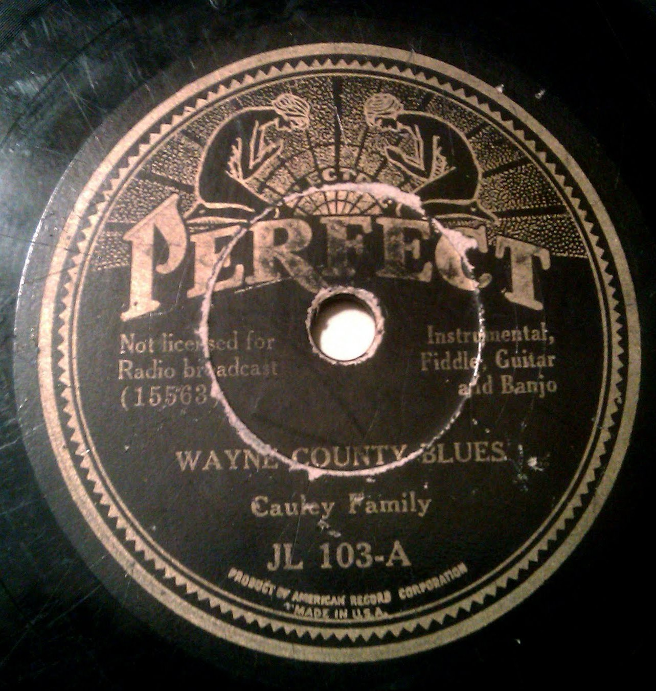 Wayne County Blues by the Cauley Family, Perfect 1934.